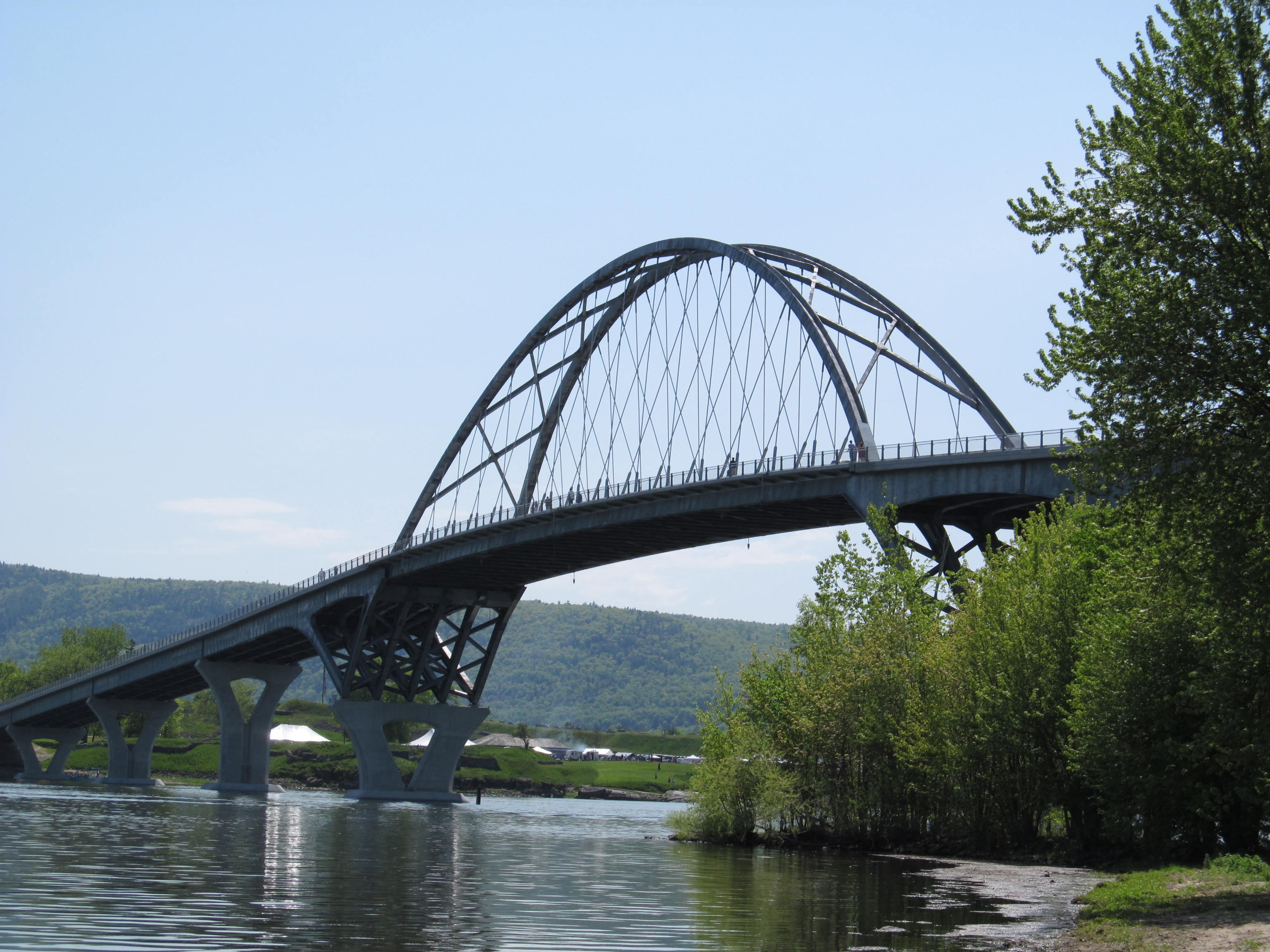 Vermont State Route 17, Lake Champlain Bridge